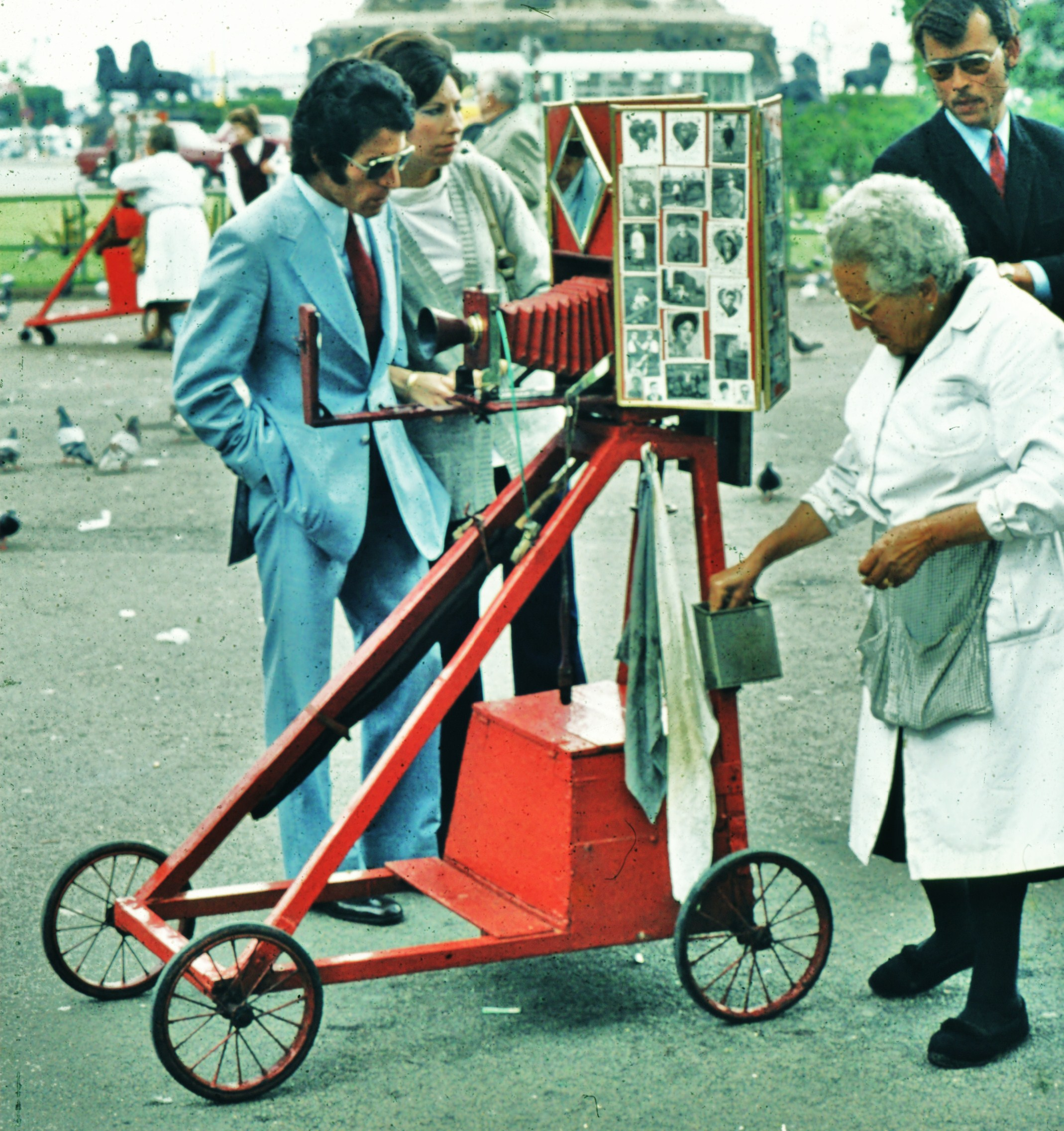 Street photographer in Barcelona (Ramblas)